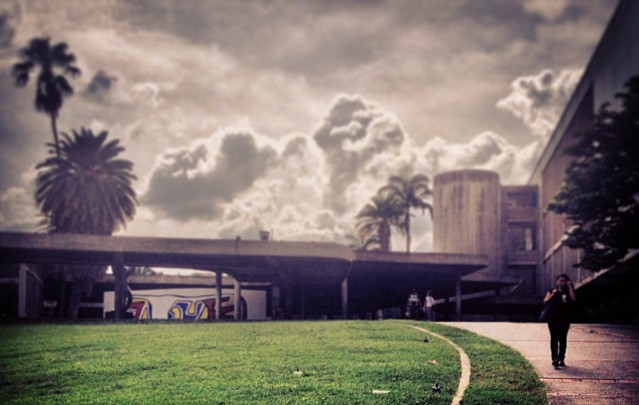 venezuela #ucv #photooftheday #arquitectura #sky #instaphoto